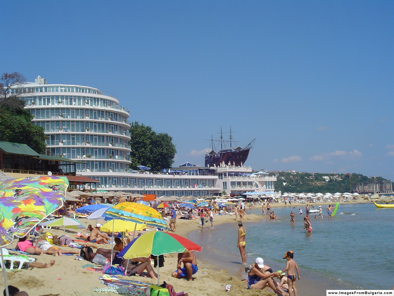 Waterfront of Saints Constantine and Helena, Bulgaria, a resort on the Bulgarian Black Sea Coast